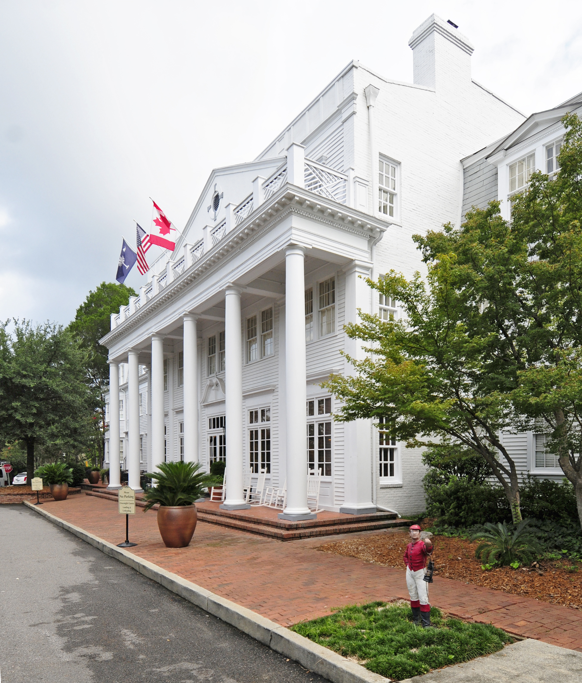 Willcox's